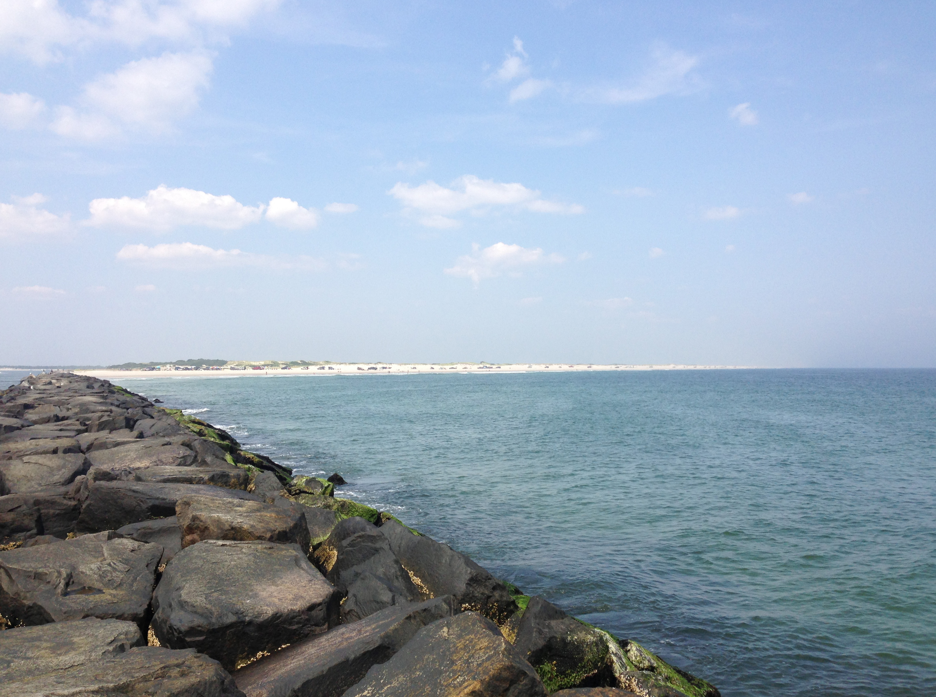 View north-northwest from 700 feet into the Atlantic Ocean on the jetty along the north shore of Barnegat Inlet in Island Beach State Park on August 21st 2013